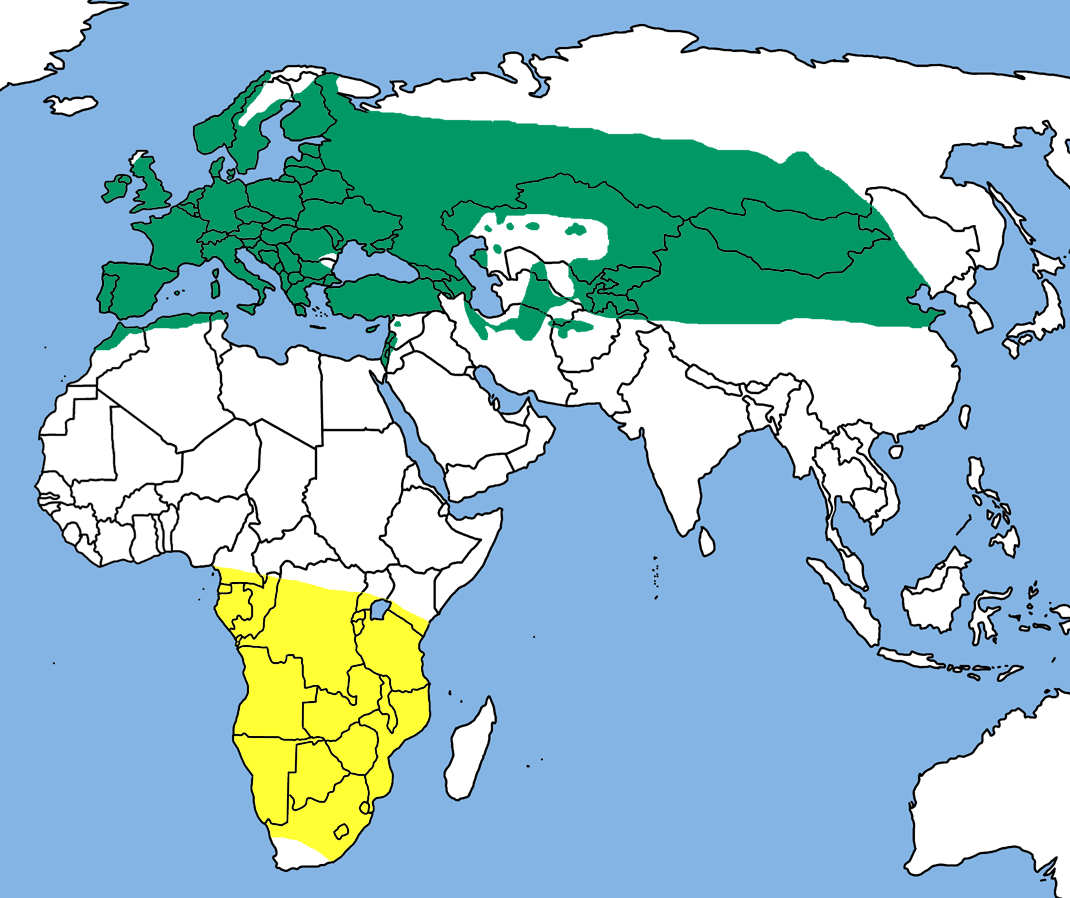 Distribution of Apus apus. Breeding range: green; wintering range: yellow; Data Source: Phil Chantler, Gerald Driessens: A Guide to the Swifts and Tree Swifts of the World; Pica Press; Mountfield 2000; ISBN 1-873403-83-6